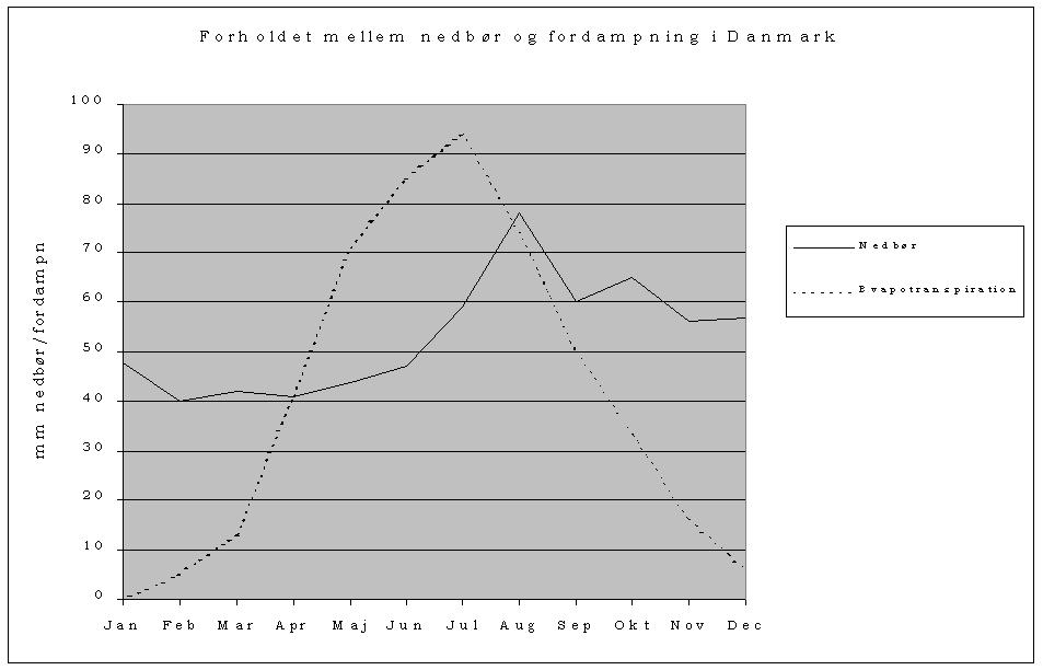 Precipitation and evapotranspiration in Denmark